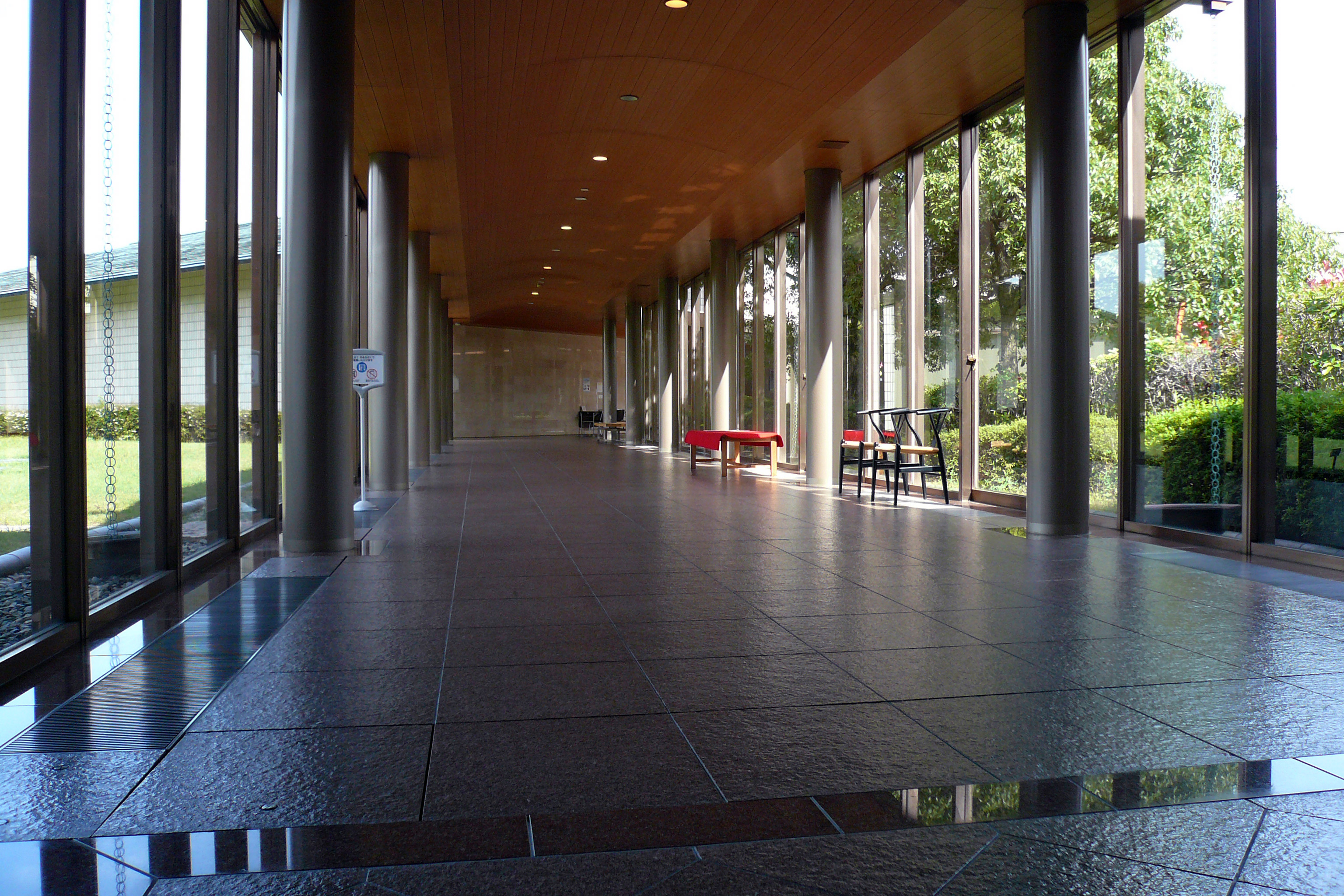 The Museum of Modern Art, Shiga in Otsu, Shiga prefecture, Japan